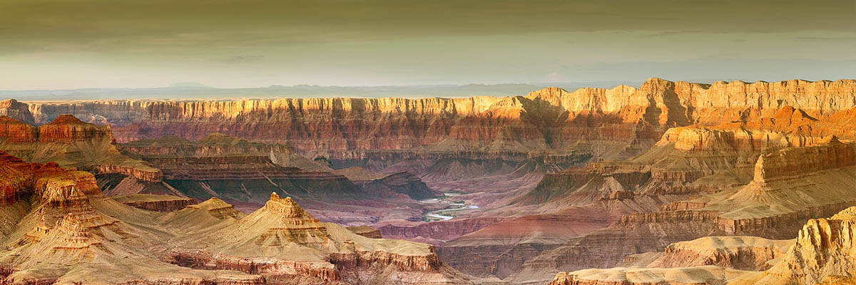 Photographed by Doug Dolde at Grand Canyon National Park in March, 2009. Contax 645, 140mm, Leaf Aptus 75S More images from this location at